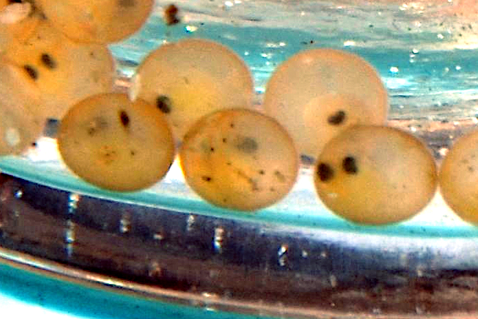 Spawn of Salmo trutta lacustris at Neualbeck #10, municipality Albeck, district Feldkirchen, Carinthia / Austria / EU